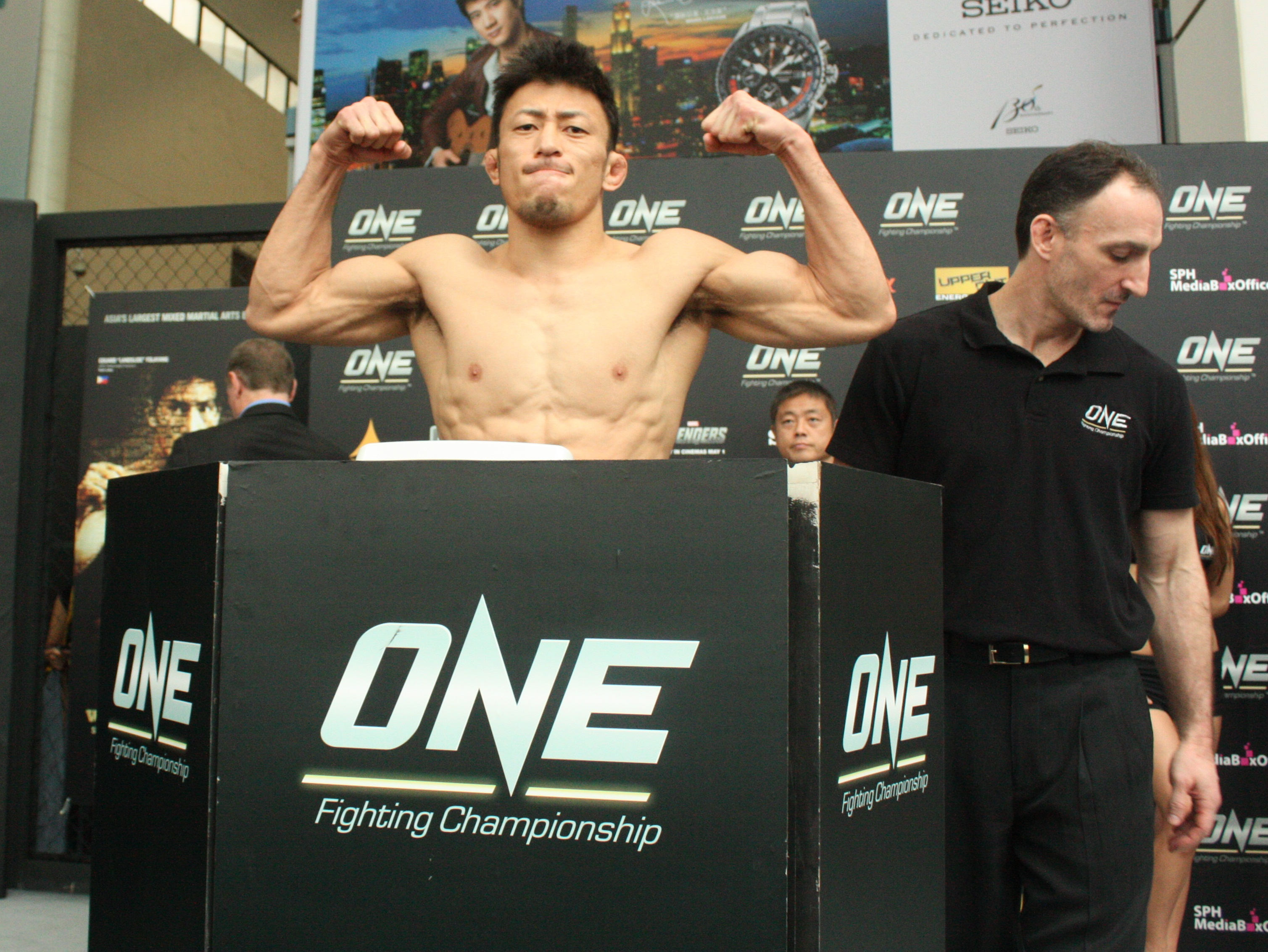 Tatsuya Kiwajiri at the ONE Fighting Championship 'War of the Lions' Weigh In